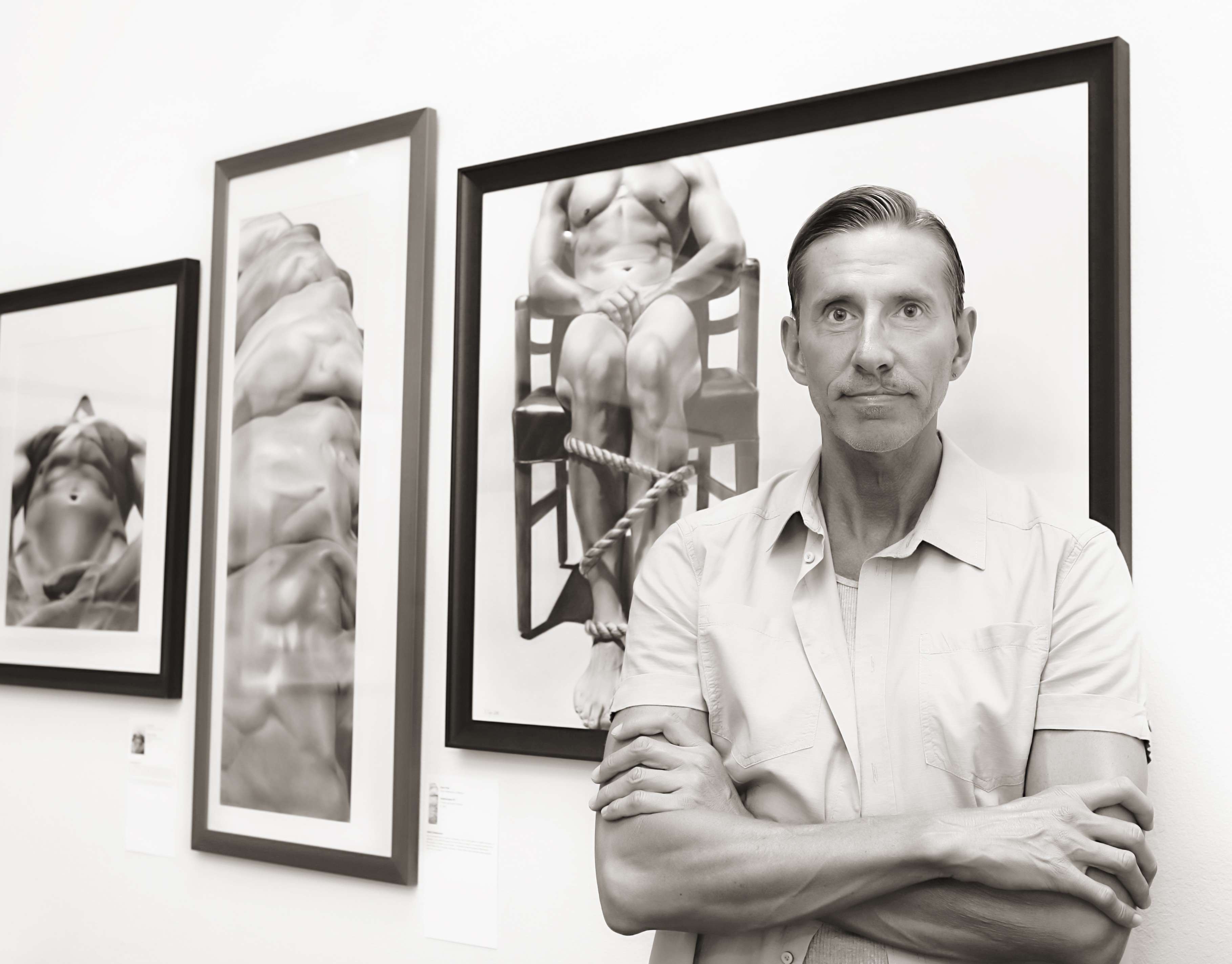 Photo of the artist Dan PYLE